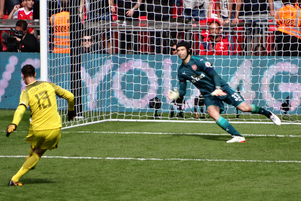 Community Shield at Wembley 6.8.17